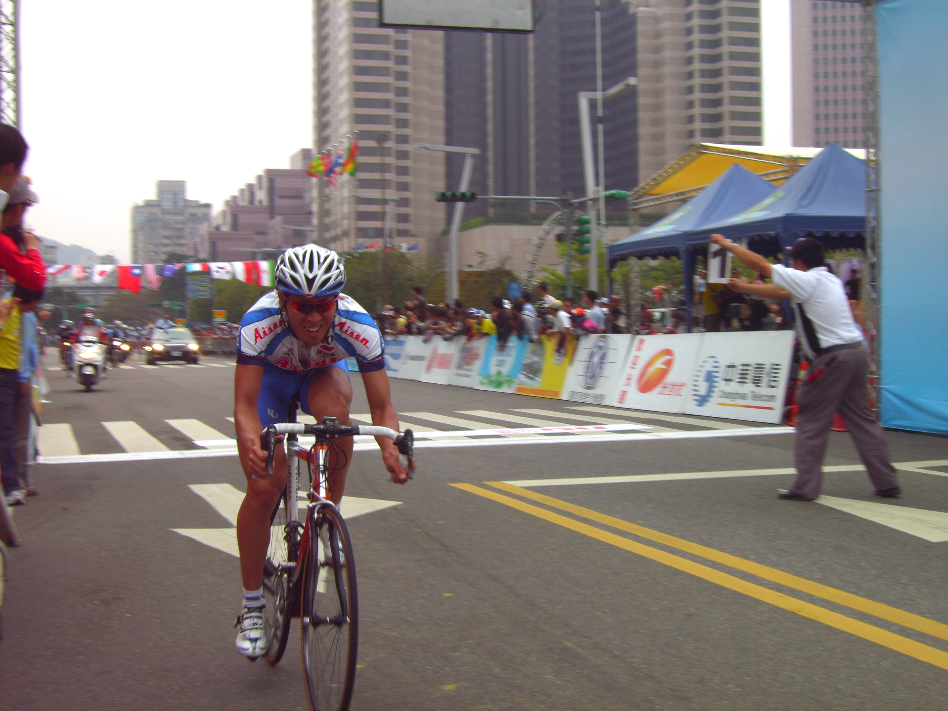 Tour de Taiwan 2007: Japan Aisan Racing Team cyclist Satoshi Hirose is the winner of the 7th Stage (Taipei City Criterium).